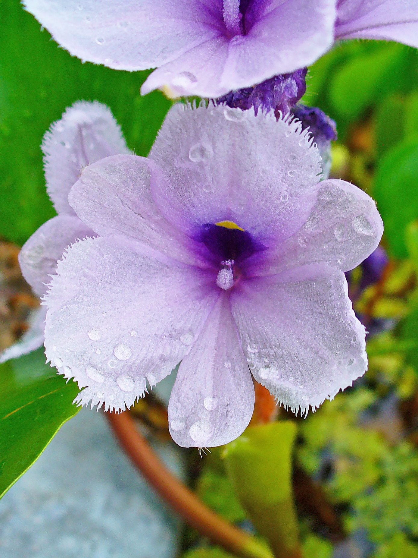 Eichhornia azurea, Pontederiaceae, Anchored Water-Hyacinth, flower; Botanical Garden KIT, Karlsruhe, Germany.